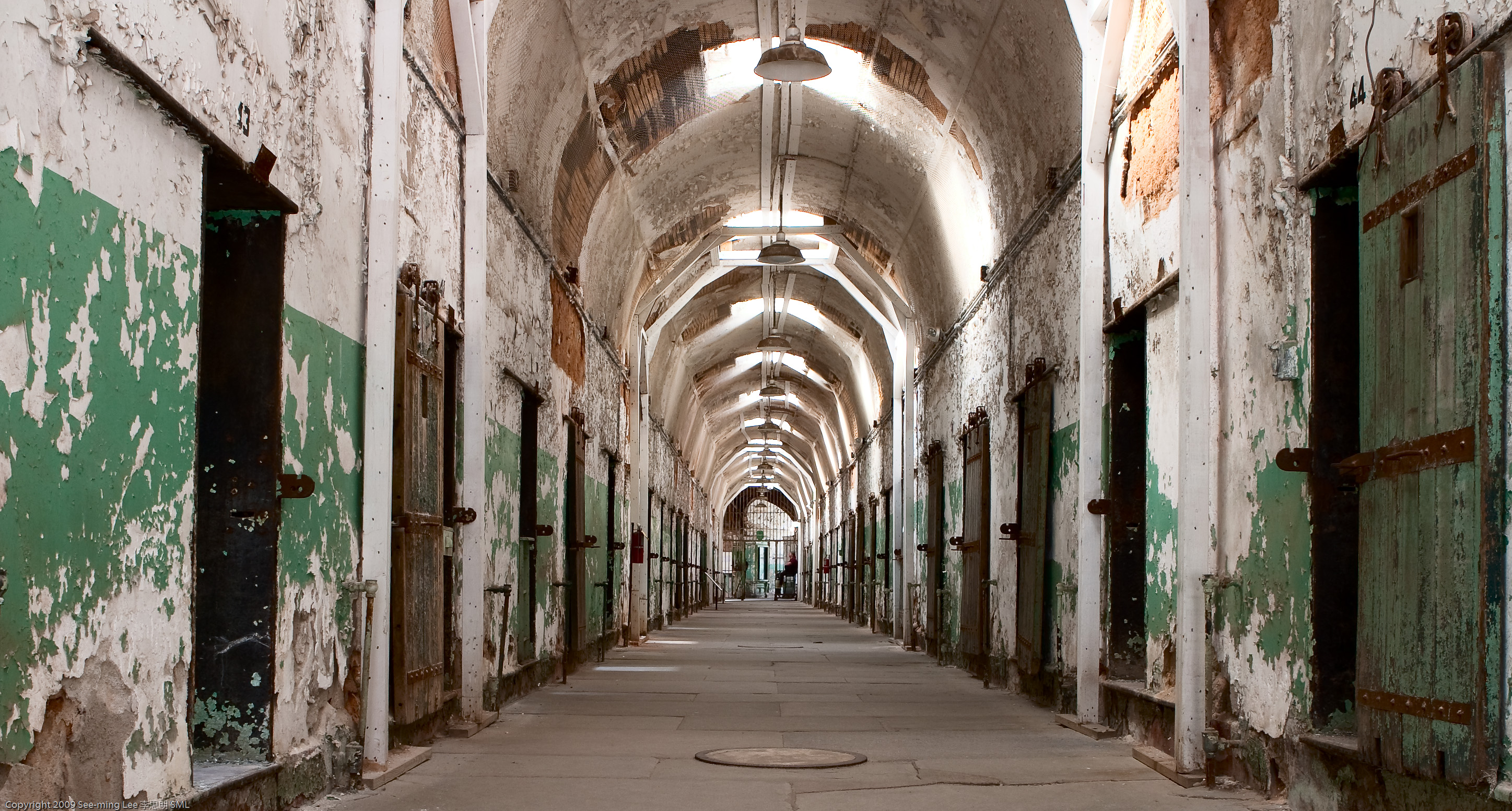 Hallway of the Eastern State Penitentiary